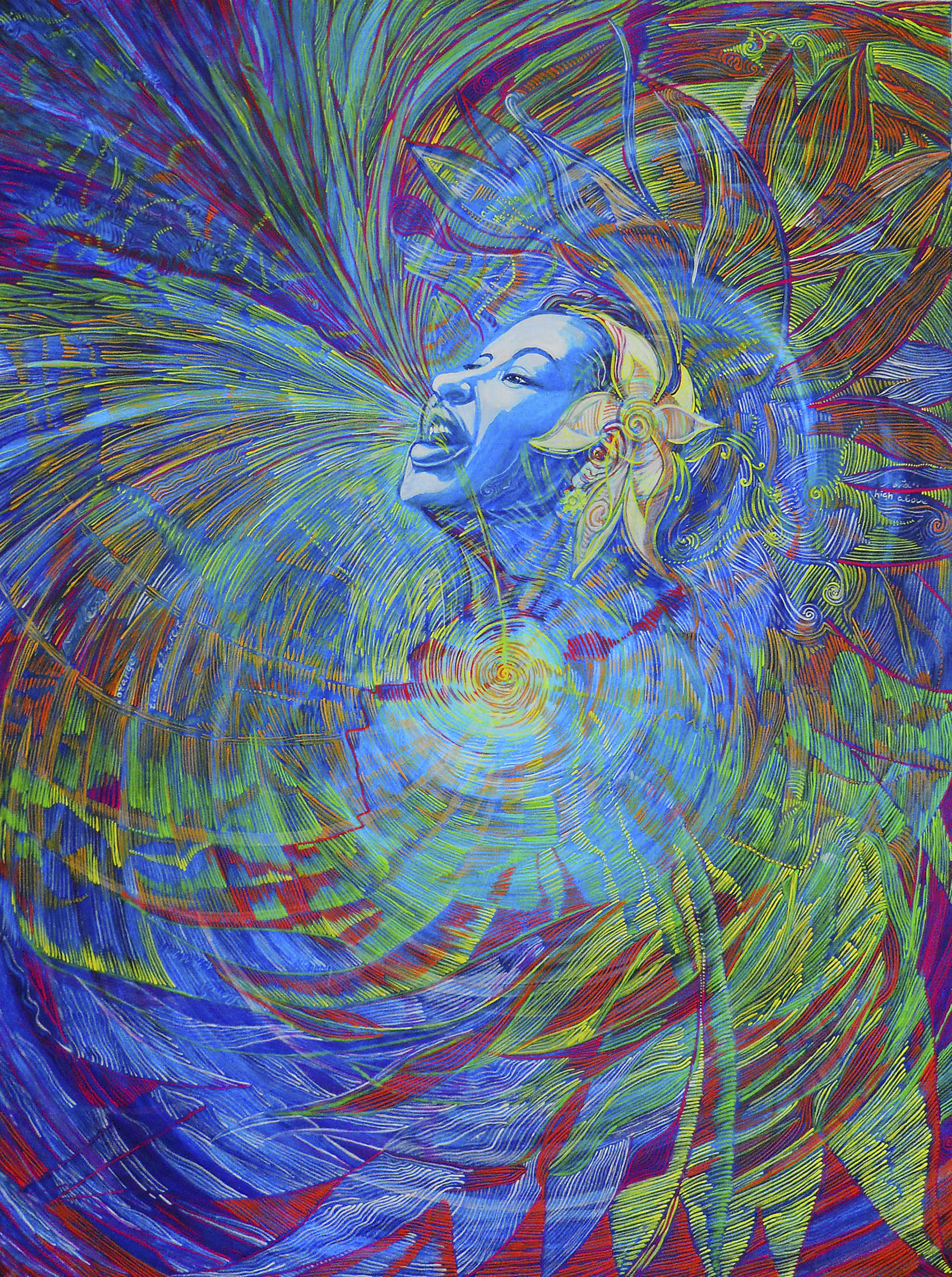 Painting by Lola Lonli. Portrait of Billie Holiday. "Billie sings, Billie loves, Billie is happy." 2011, canvas, egg tempera with fluorescent pigments, 80x60